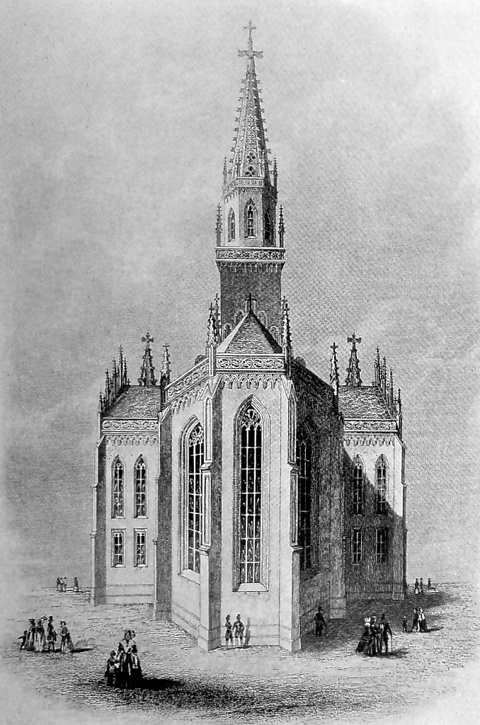 Steel engraving of the Old Trinity Church in Leipzig, East view